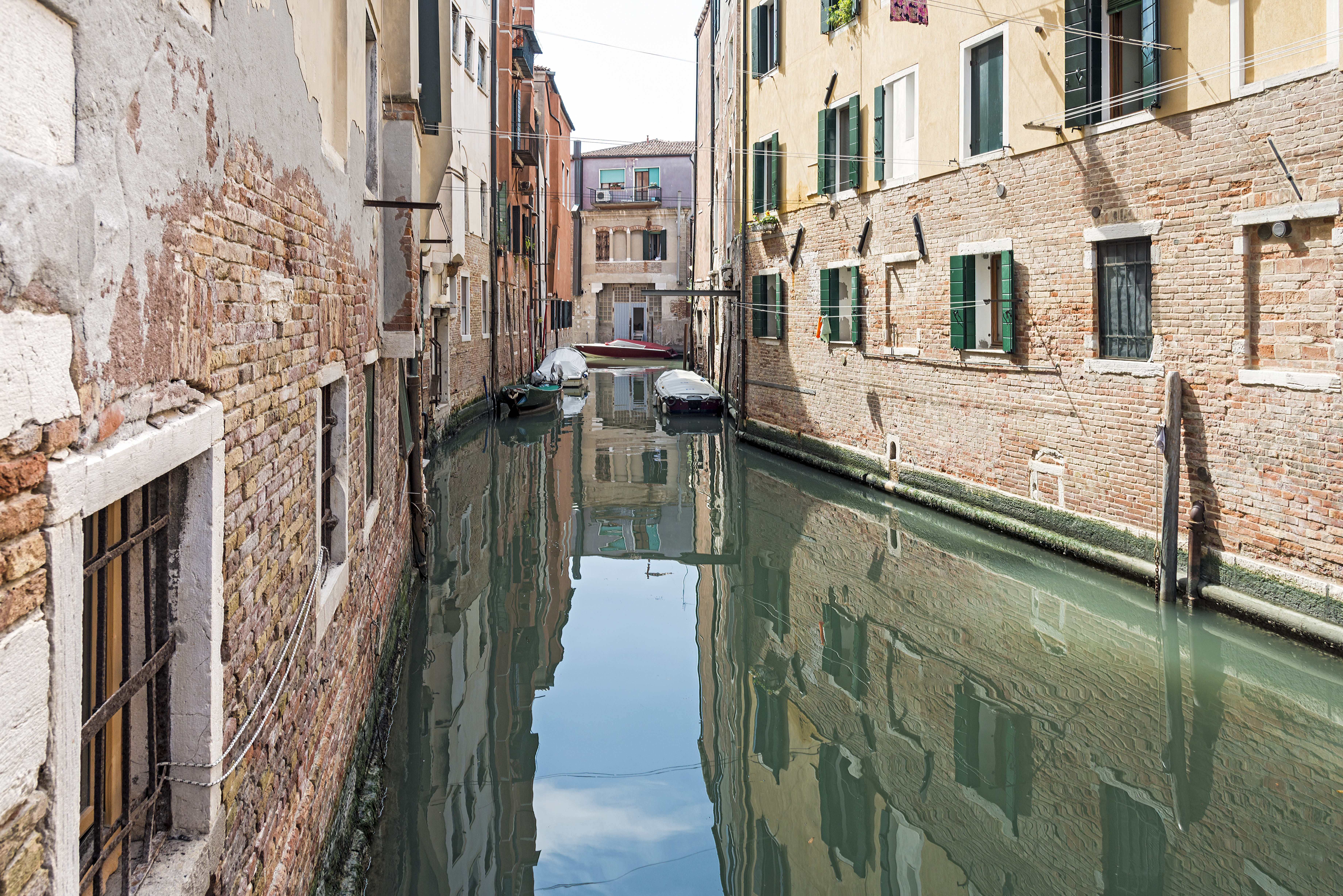 Rio del Gheto, seen from ponte del Gheto Vecchio to SE, Venice.